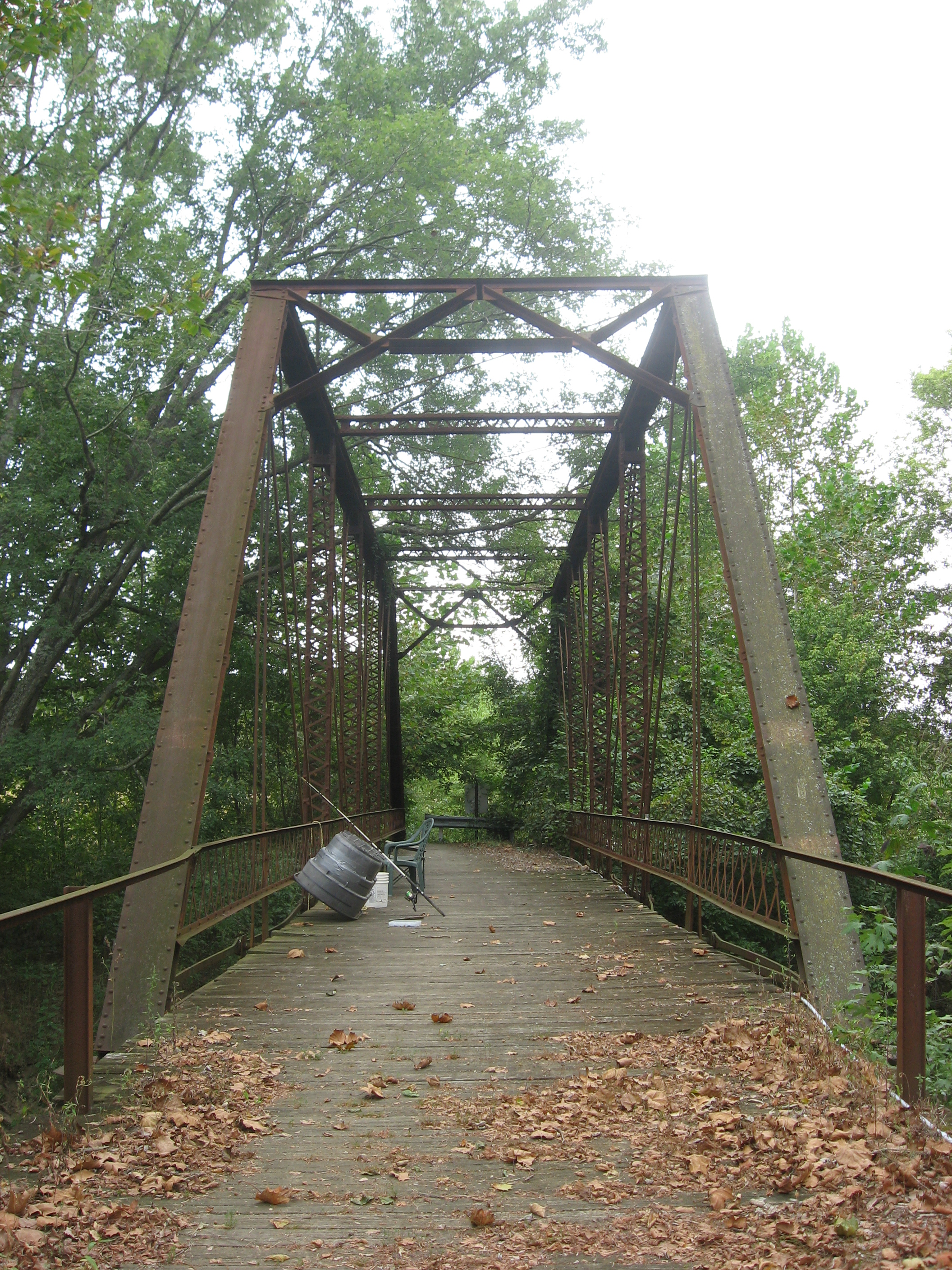 Southern portal of the Brown County Bridge No. 36, which formerly carried Bond Cemetery Road over Salt Creek southwest of Nashville in Washington Township, Brown County, Indiana, United States. Built in 1908 and since closed, it is listed on the National Register of Historic Places.